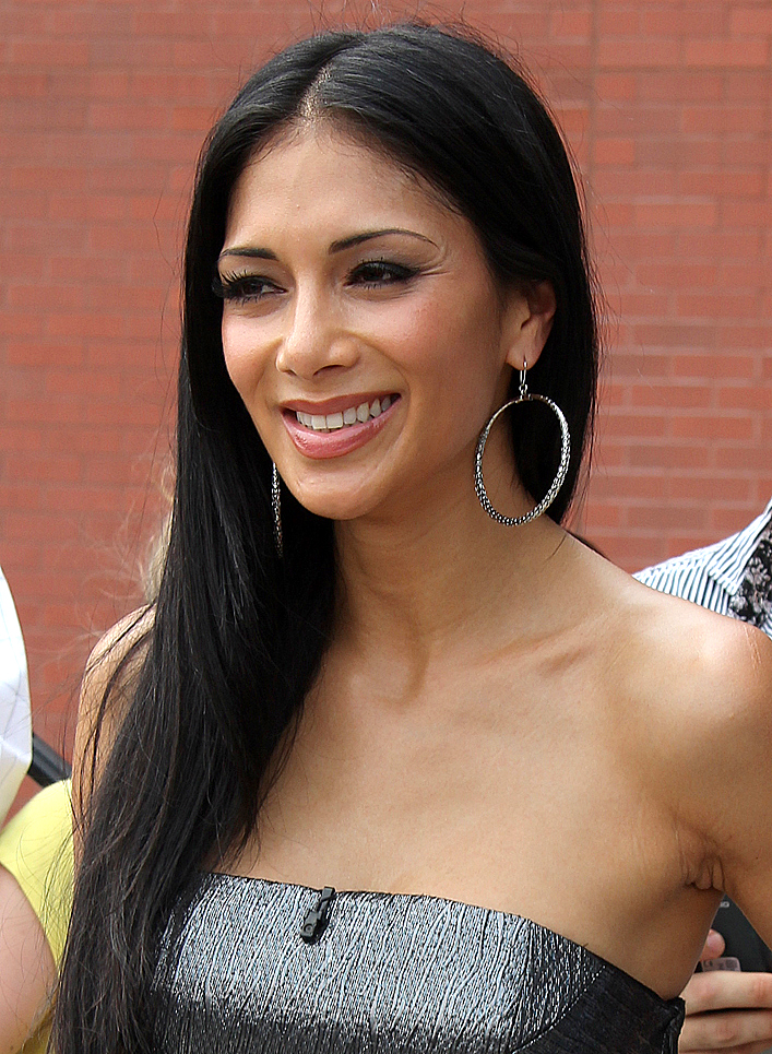 Nicole Scherzinger at the New Jersey X factor Auditions 2011.